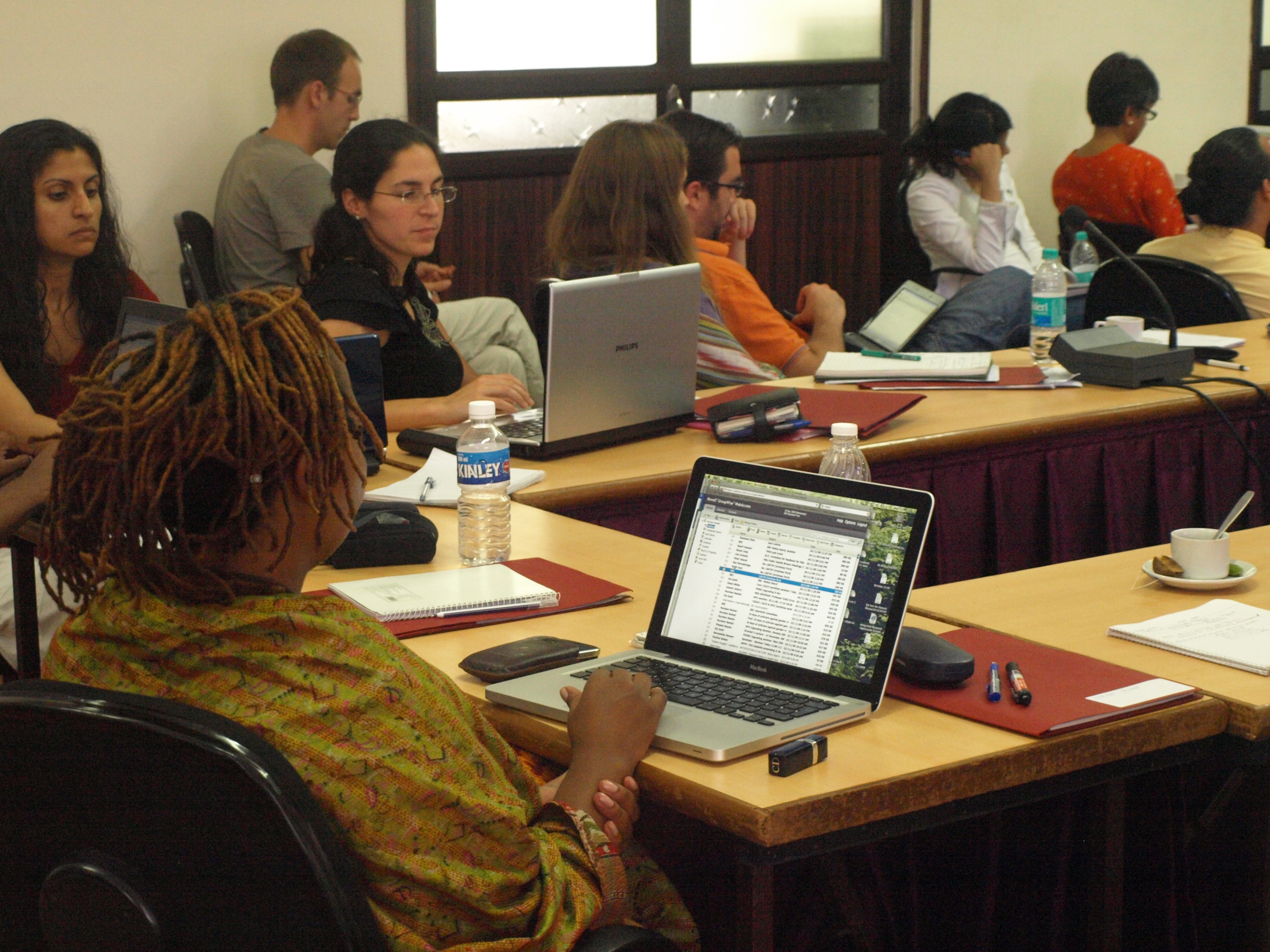 Foreign and Indian participants at an event at the International Centre Goa. Photo: Frederick Noronha